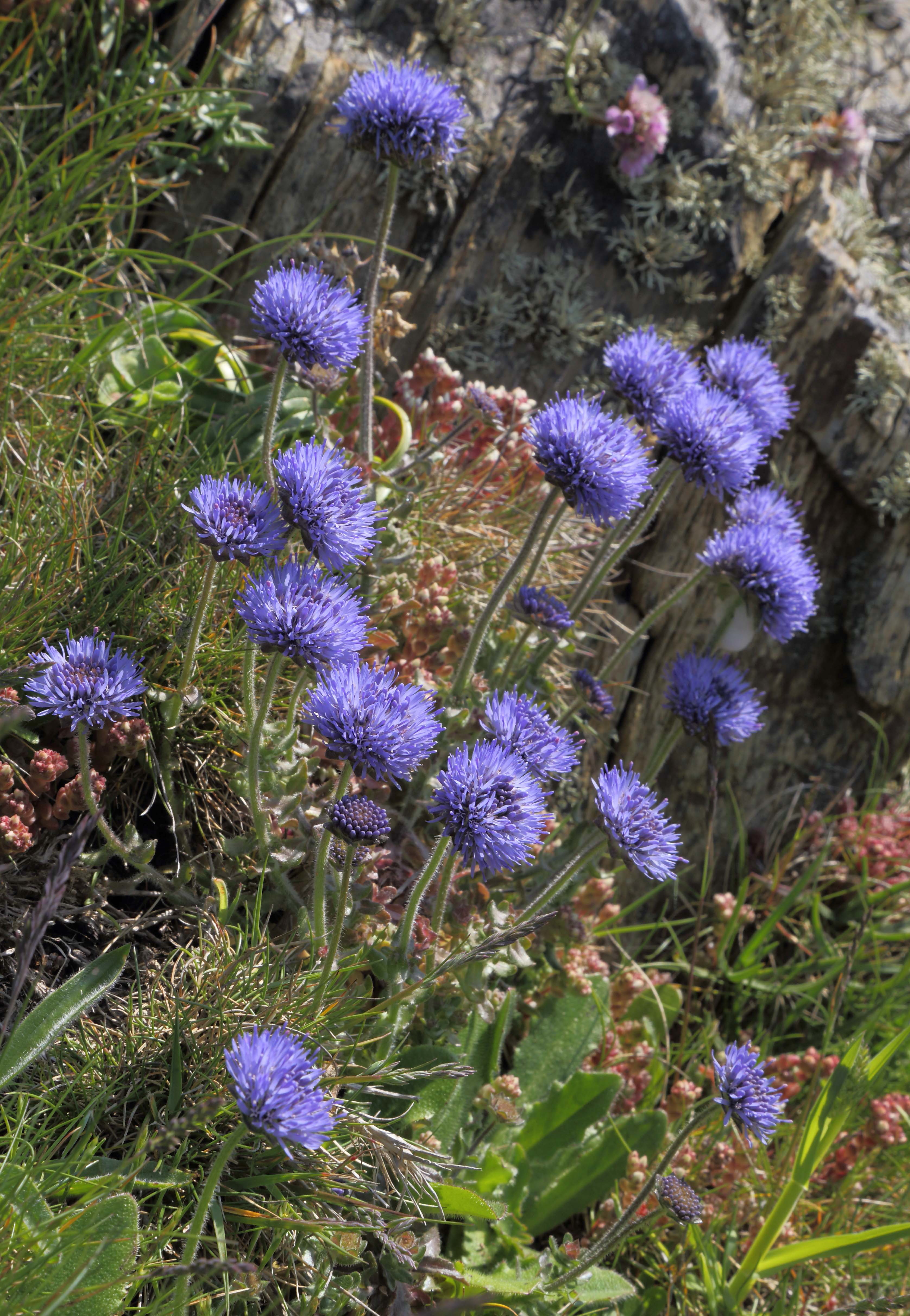 Sheep's bit growing on the cliff top at Ynys Lawd, Anglesey